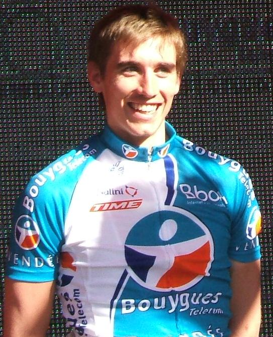 Named cyclist at the en:2009 Tour Down Under team presentation